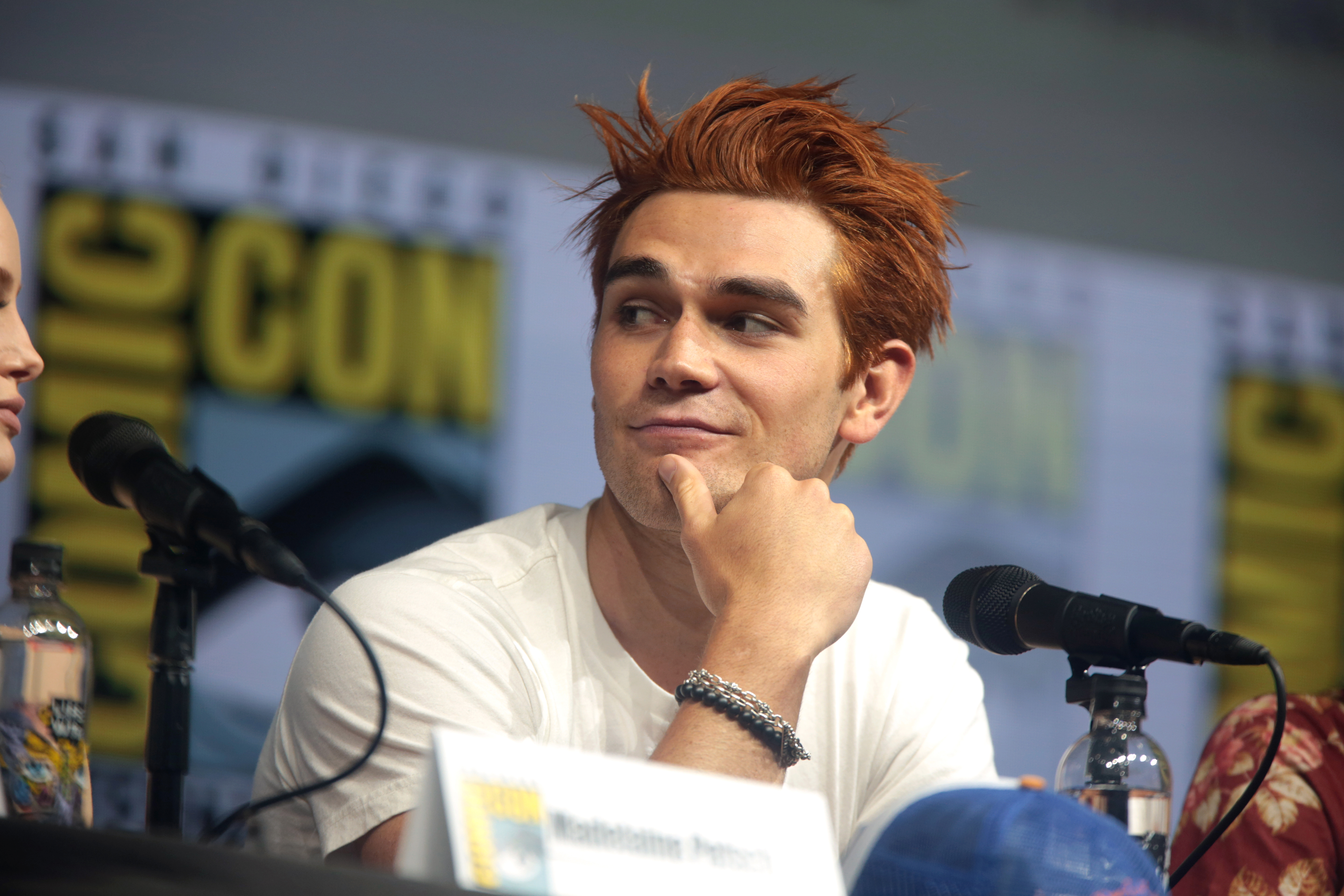 KJ Apa speaking at the 2018 San Diego Comic Con International, for "Riverdale", at the San Diego Convention Center in San Diego, California.